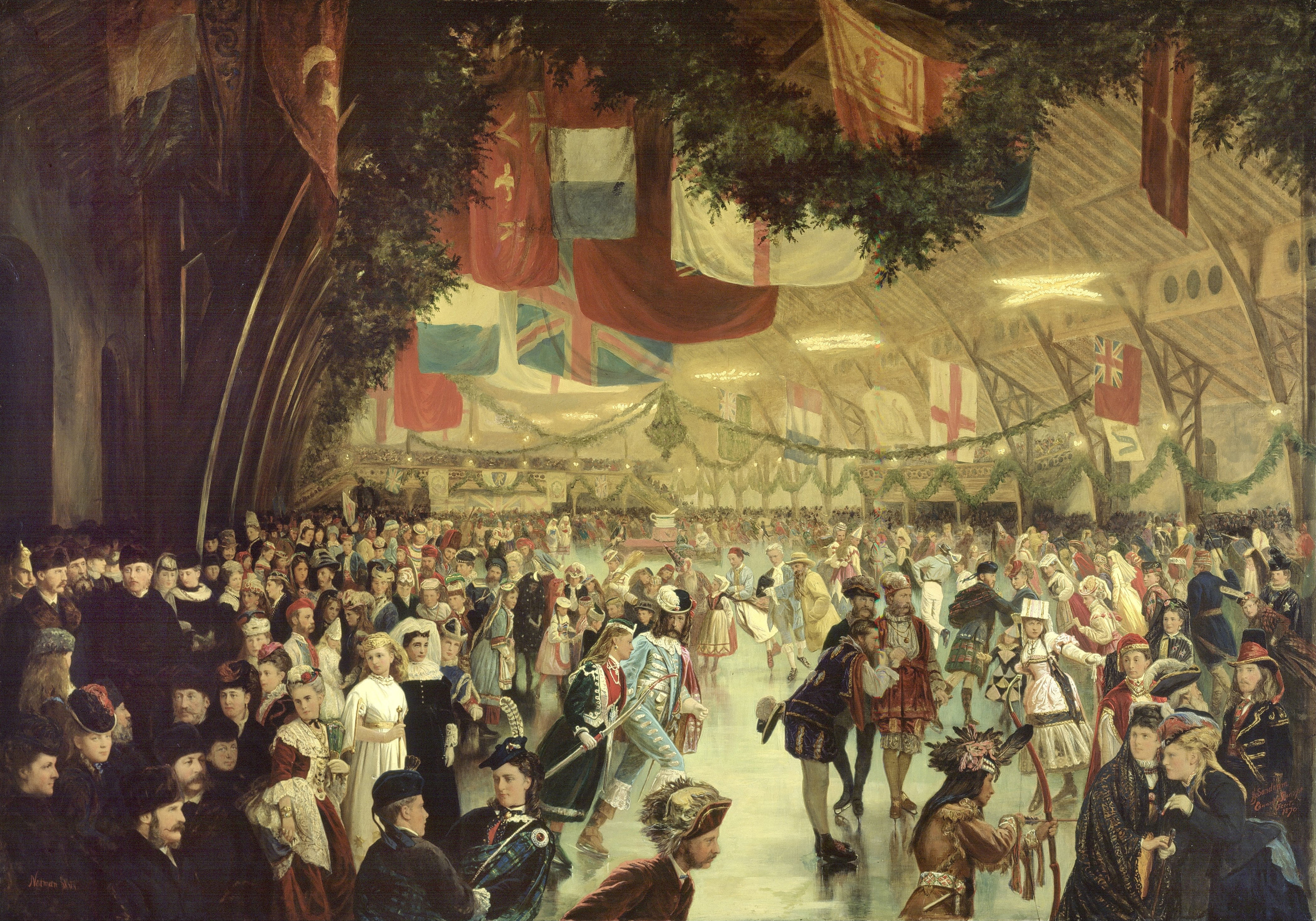 Skating Carnival, Victoria Rink, Montreal, QC. William Notman. 1870. McCord Museum via Google Cultural Institute. Oil paint on silver salts photograph.